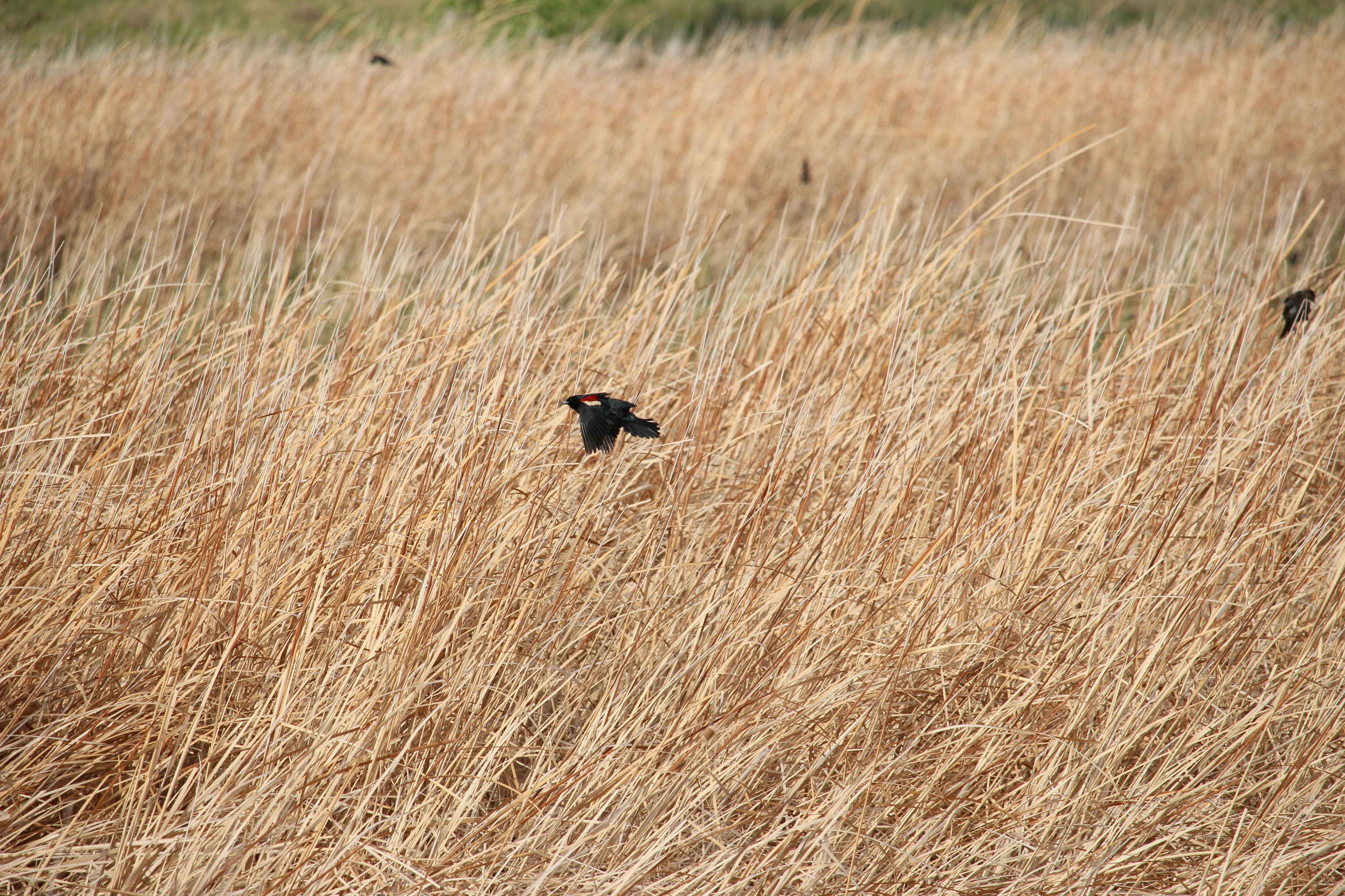 Tricolored Blackbird Identification by: Linda Edwards and Vern Benhart Viewpoint location: Holiday Lake, west of Lancaster, California Viewpoint elevation: 882 meter (2895 ft) Location source: Garmin GPSmap 60CSx Location Datum: WGS84